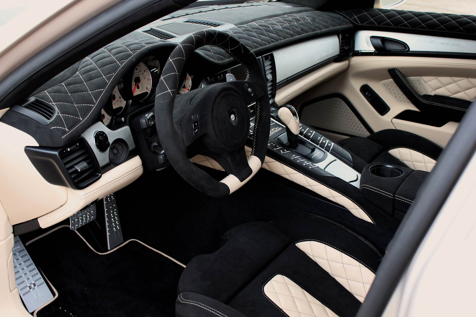 Picture was shot in 2011. Shows the handcrafted interior works.